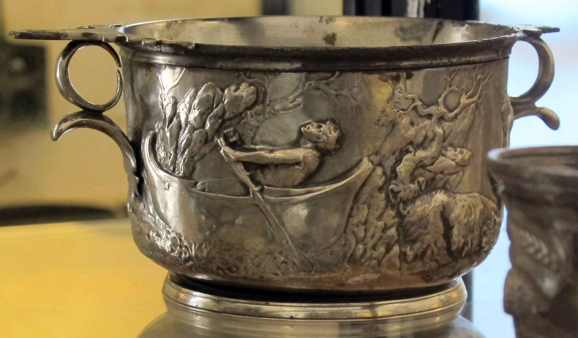 Ancient Roman items in the Museo Archeologico (Naples)